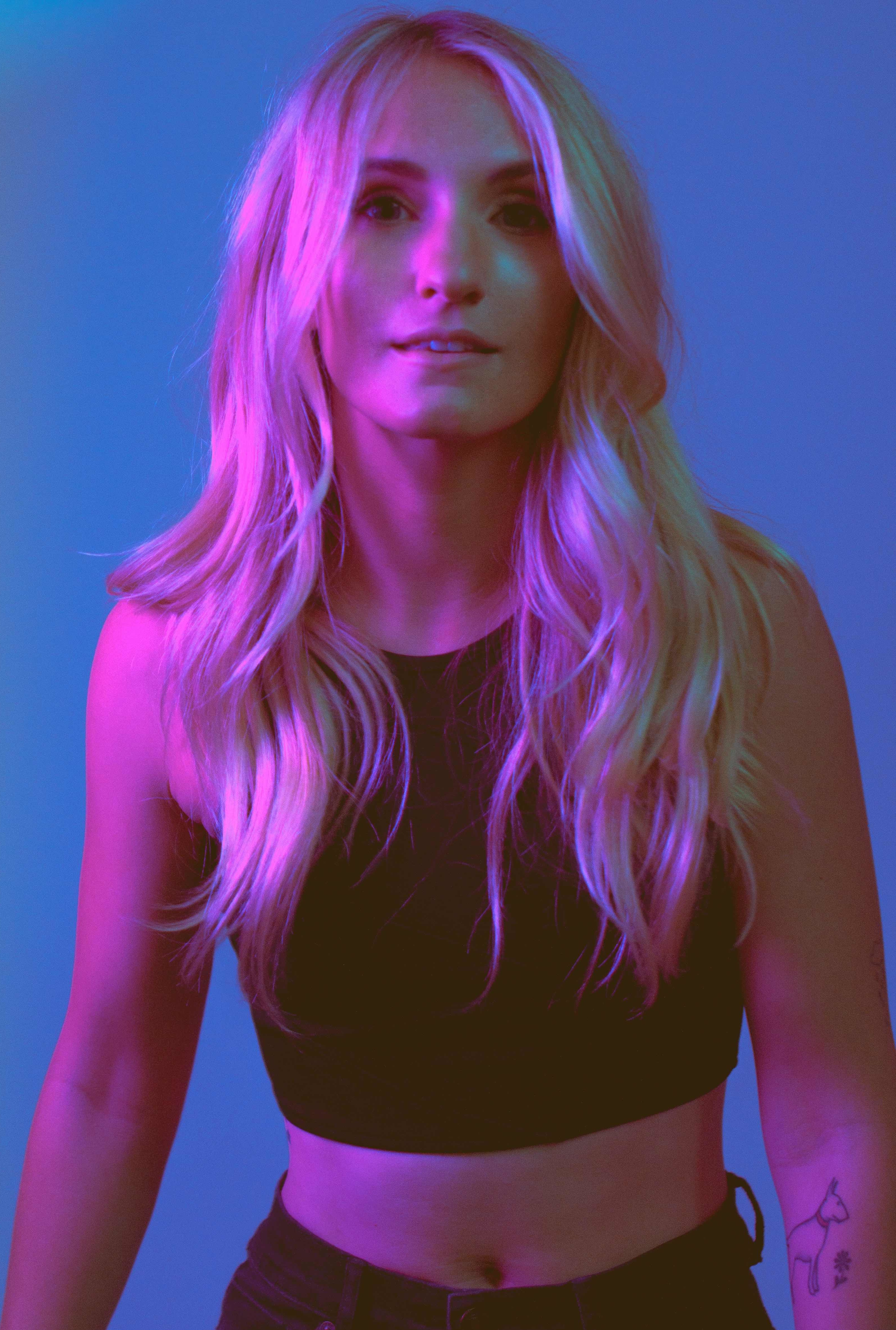 Pink/green/blue press photo of recording artist, Caitlin Linney, known as Linney